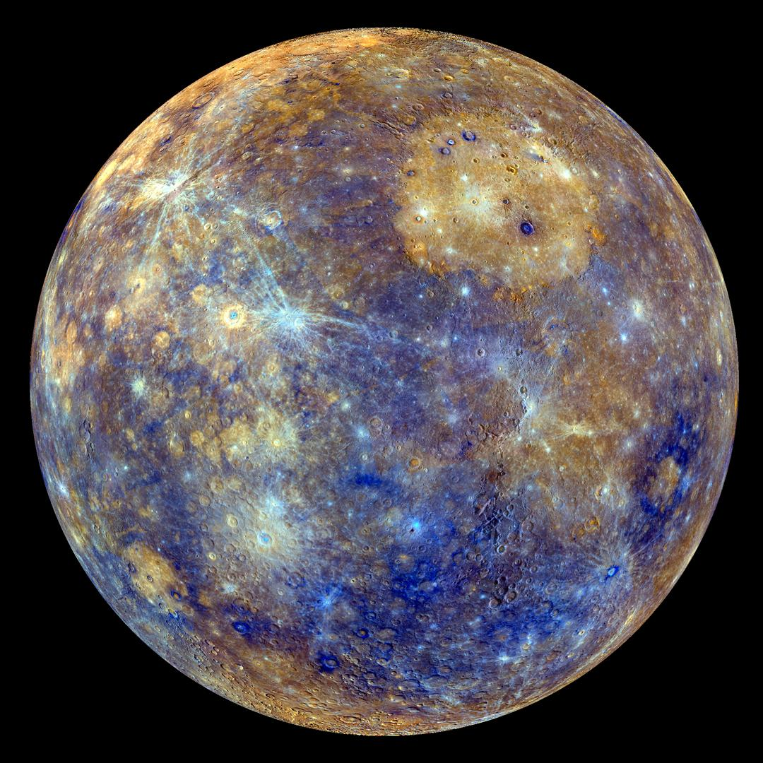 This colorful view of Mercury was produced by using images from the color base map imaging campaign during MESSENGER's primary mission. These colors are not what Mercury would look like to the human eye, but rather the colors enhance the chemical, mineralogical, and physical differences between the rocks that make up Mercury's surface.